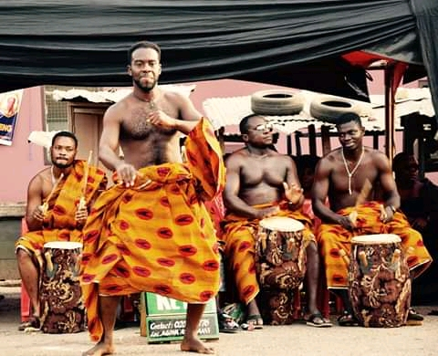 This picture depicts the culture of the Ashanti people of Ghana. Its about a group of performers performing a song and a dance as they burry the dead. This photo has been taken in the country: Ghana